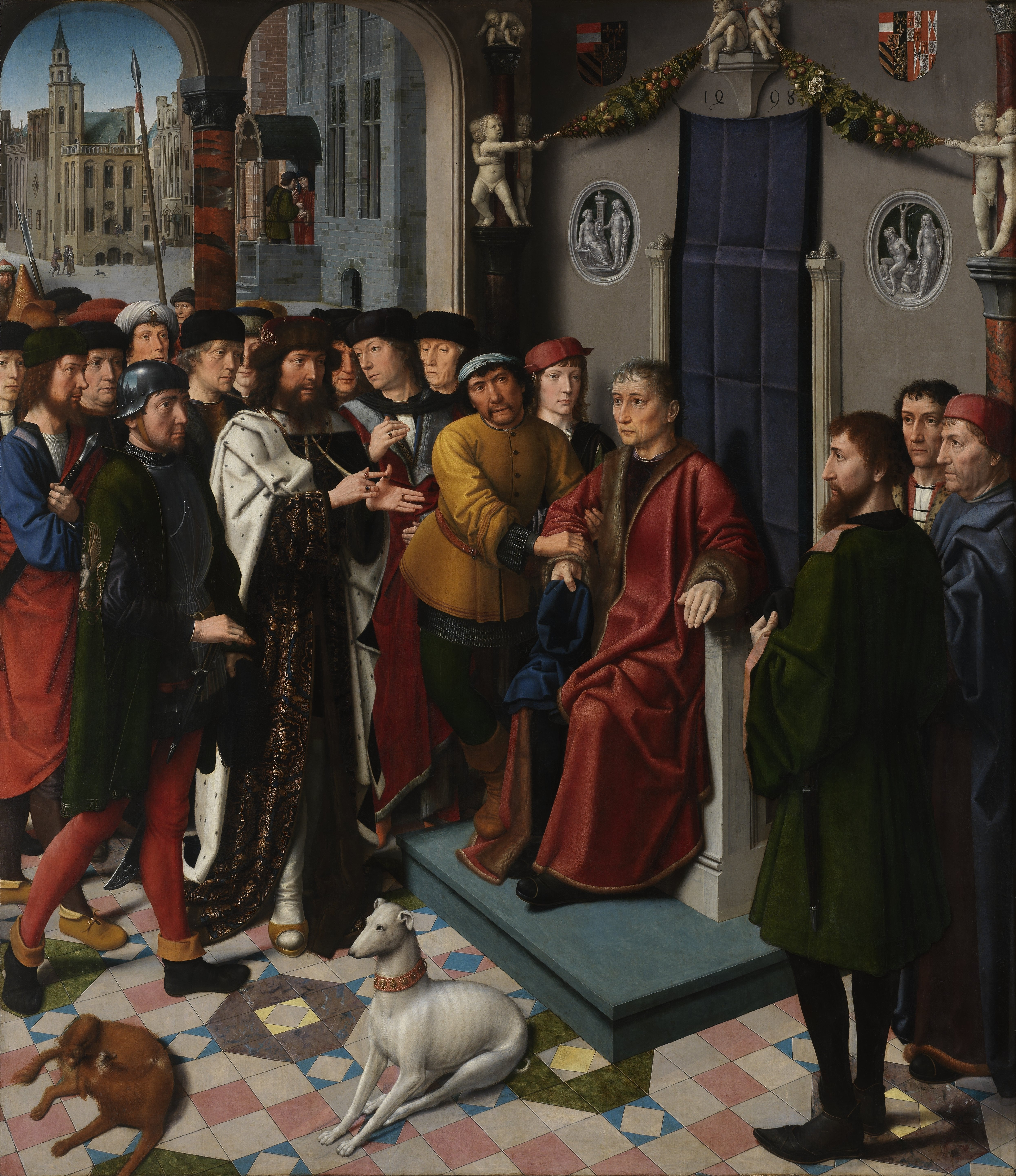 Justice diptych for the Council Chamber of Bruges Town Hall. Panel 1 - The capture of the corrupt judge Sisamnes